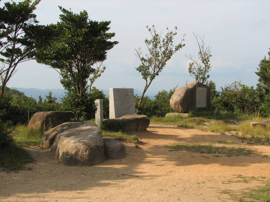 remains of Shimofuri castle in Ube, Yamaguchi, Japan